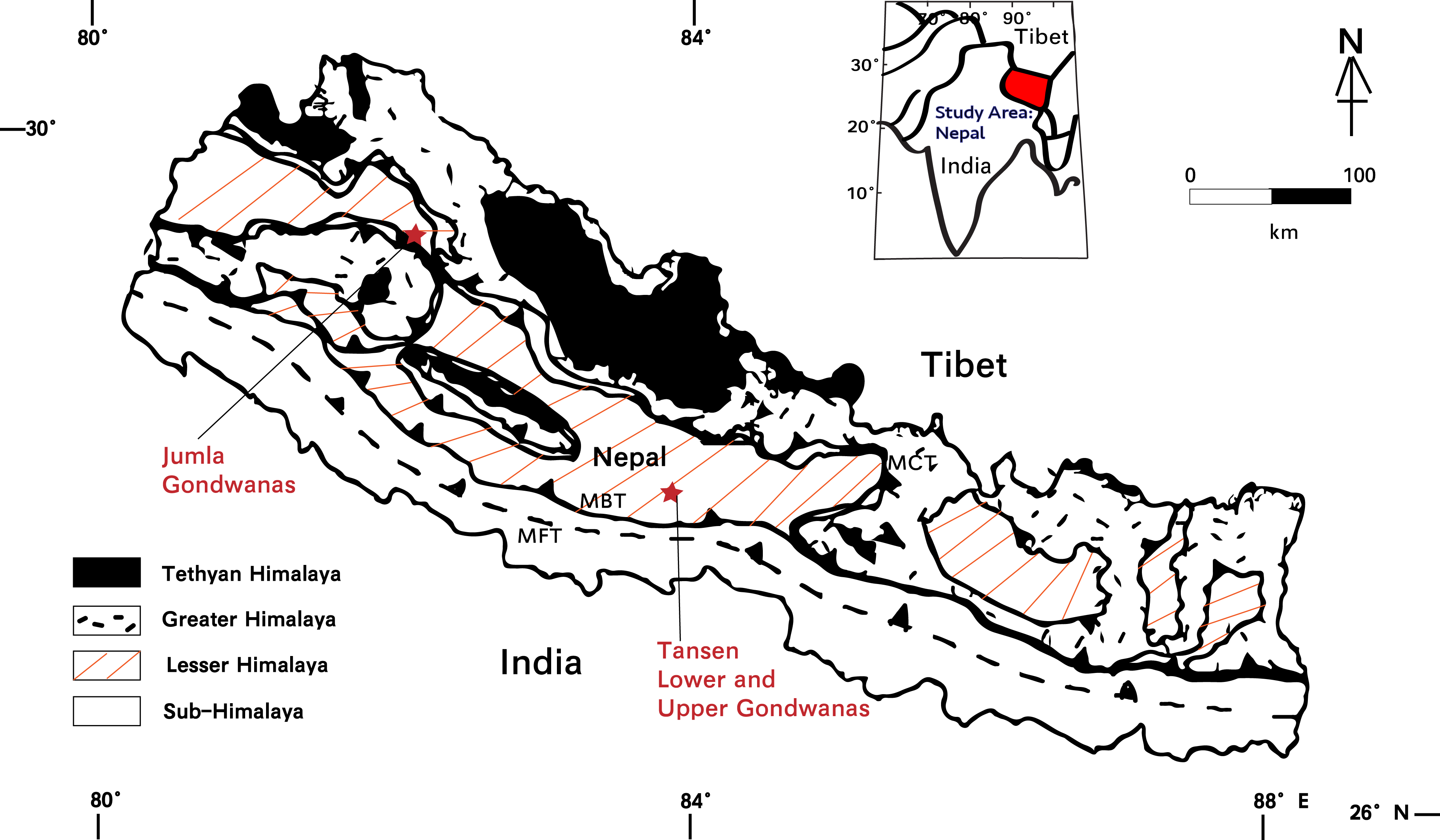 This shows on the geographic location of Gondwana Strata in Nepal